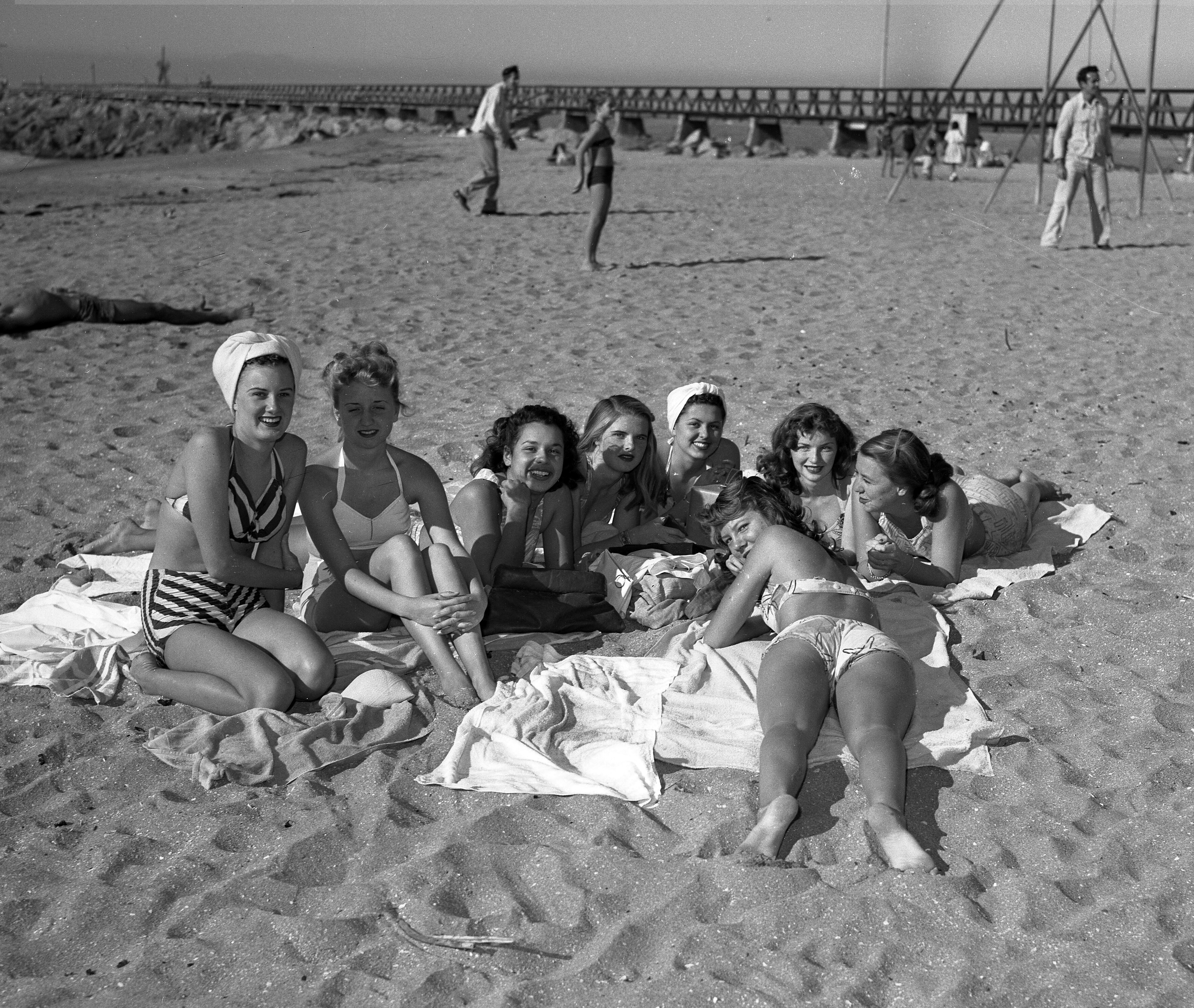 Title: Eight girls laying in the sand while tanning with jetty in the background at Cabrillo Beach, Calif., 1947 (cropped). Publication Los Angeles Times Publication date December 28, 1947 Subjects Bathing beaches; Bathing beauties; Cabrillo Beach at Category:San Pedro, Los Angeles.